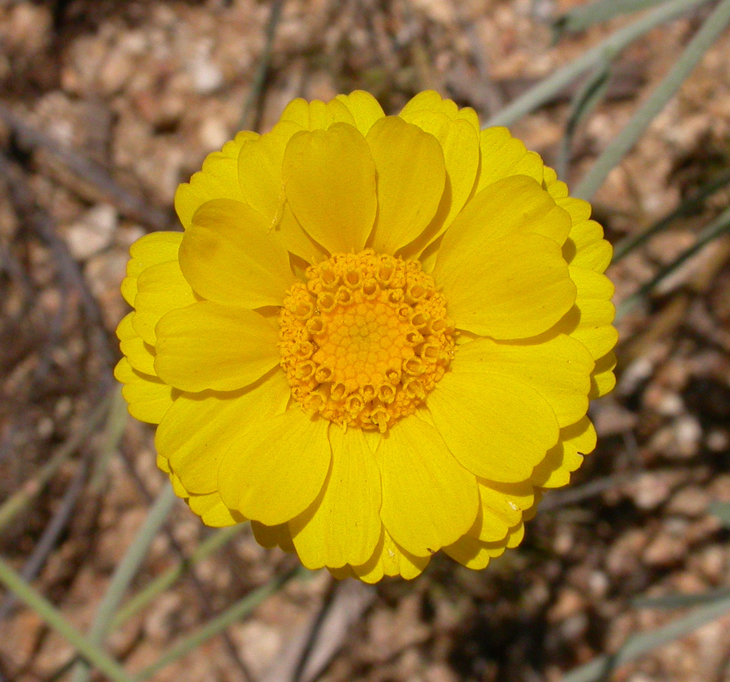 Photographed at BioTrek. Contributed and © by Curtis Clark. Licensed as noted.